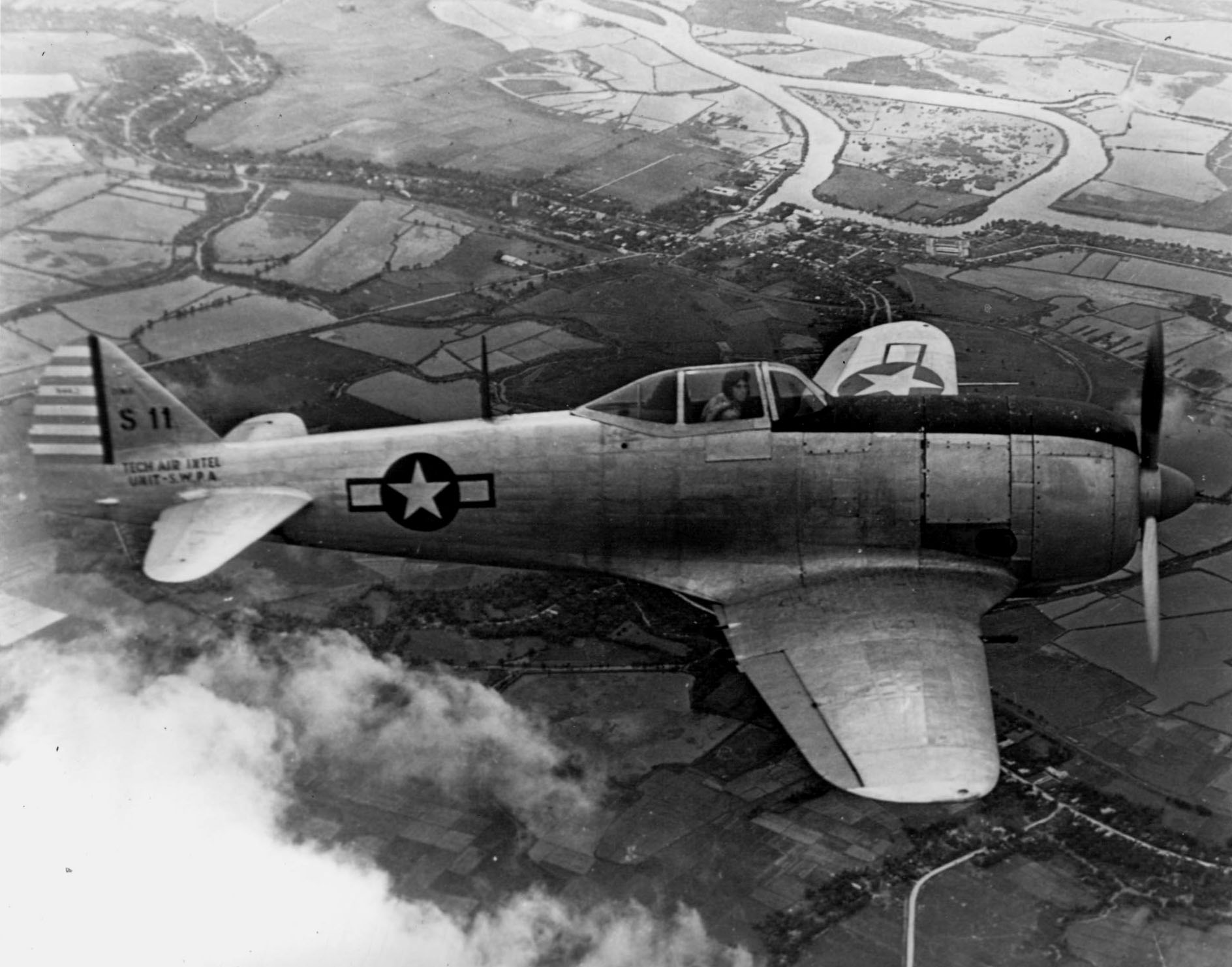 A captured Japanese Nakajima Ki-44 "Tojo" fighter pictured in flight in U.S. Army Air Forces markings ("Tech Air Intel Unit - South West Pacific Area").